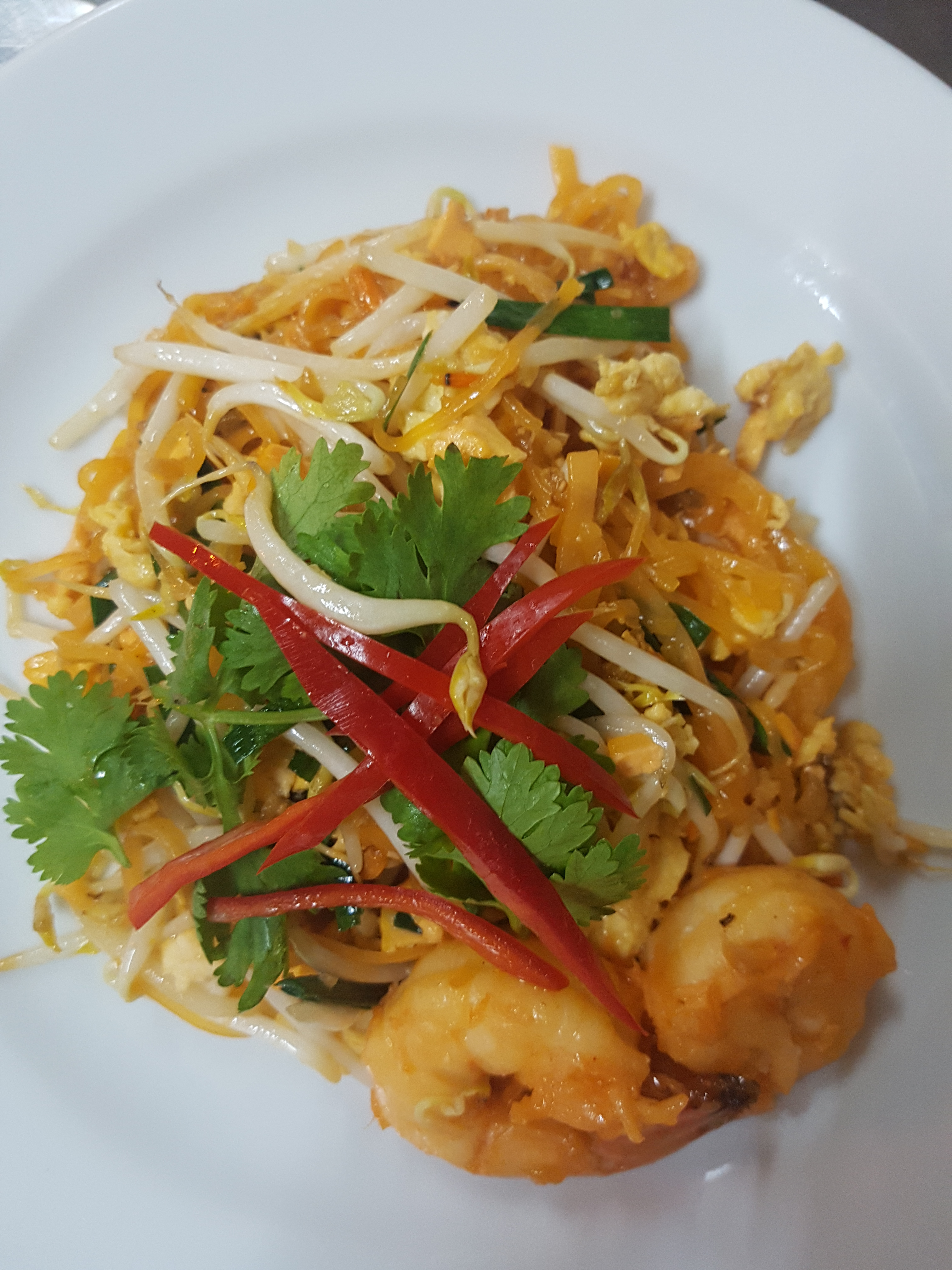 The popular Ghost Gate Phat Thai (ผัดไทยประตูผี) of Thip Samai Shop (ทิพย์สมัย), located at the Ghost Gate (ประตูผี) in Phra Nakhon District, Bangkok, Thailand. However, as a native Thai (and a phat thai lover), I have to say that their phat thai was not as good as reputed -- it literally tasted like vomit...